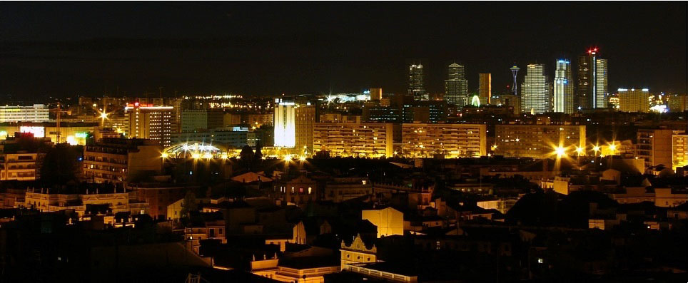 Night Skyline of the second comercial distric of the city